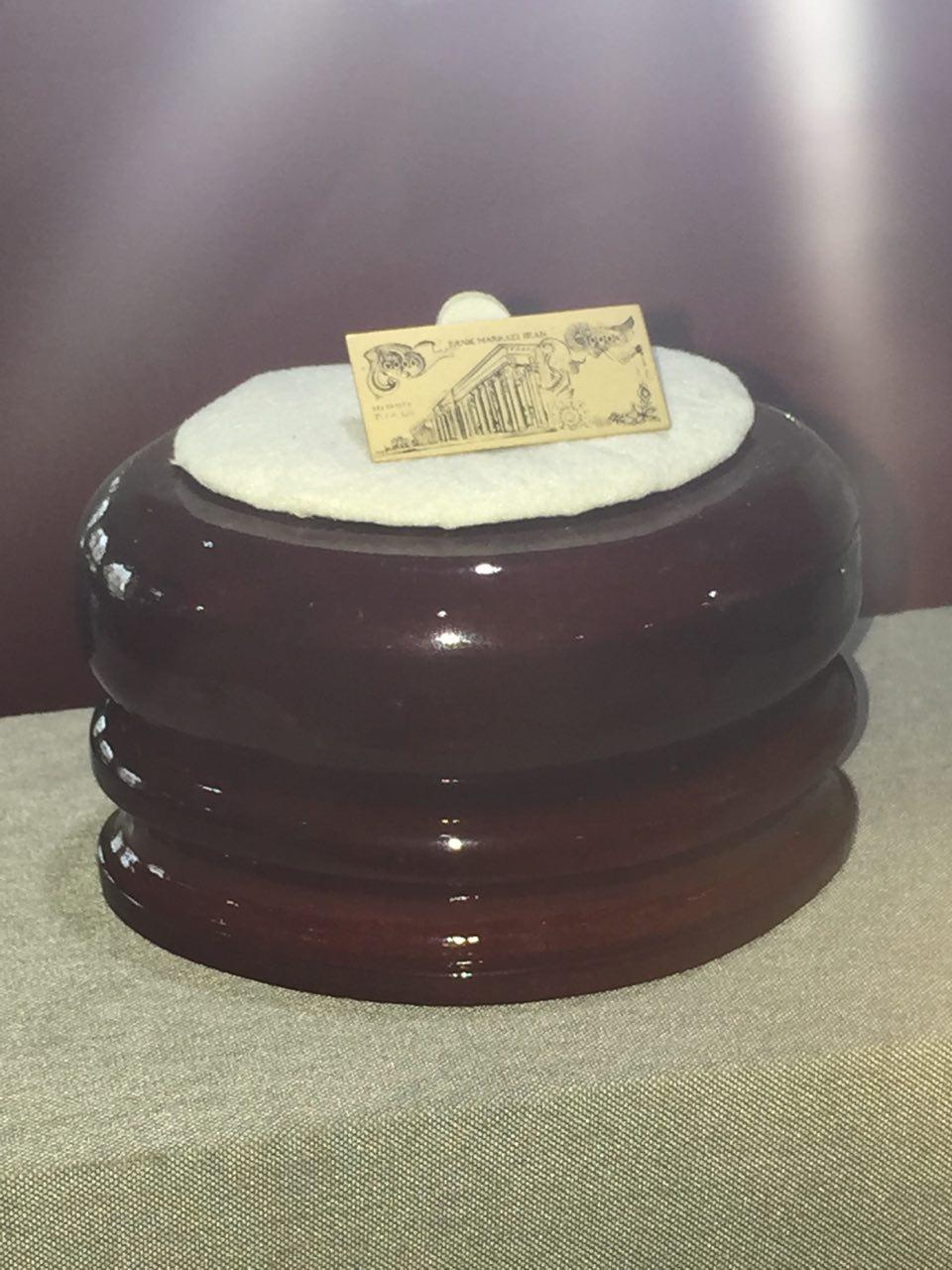 Gold banknotes